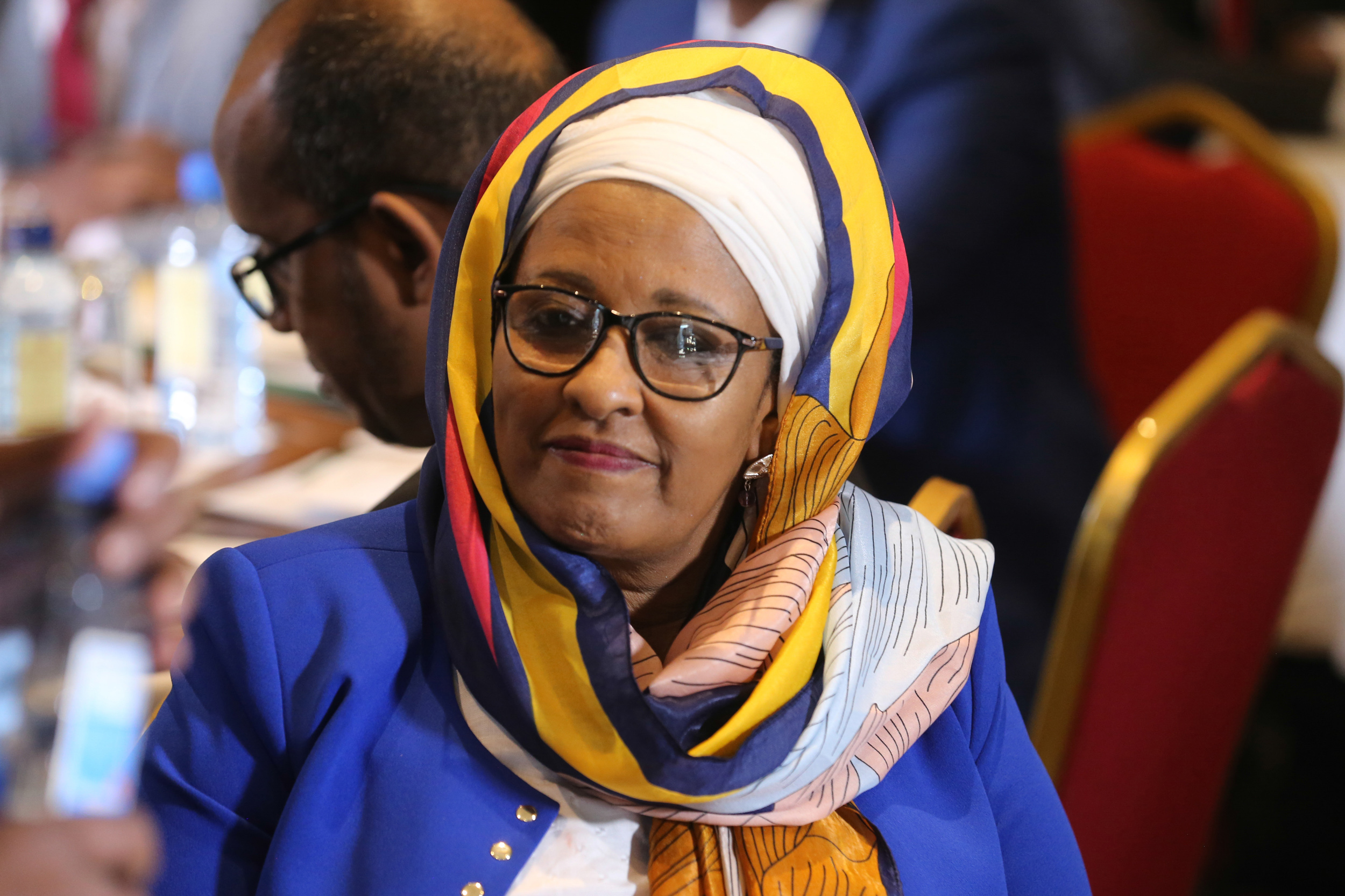 Halima Ismail Ibrahim, the Chairperson of the Somalia's National Independent Electoral Commission (NIEC)